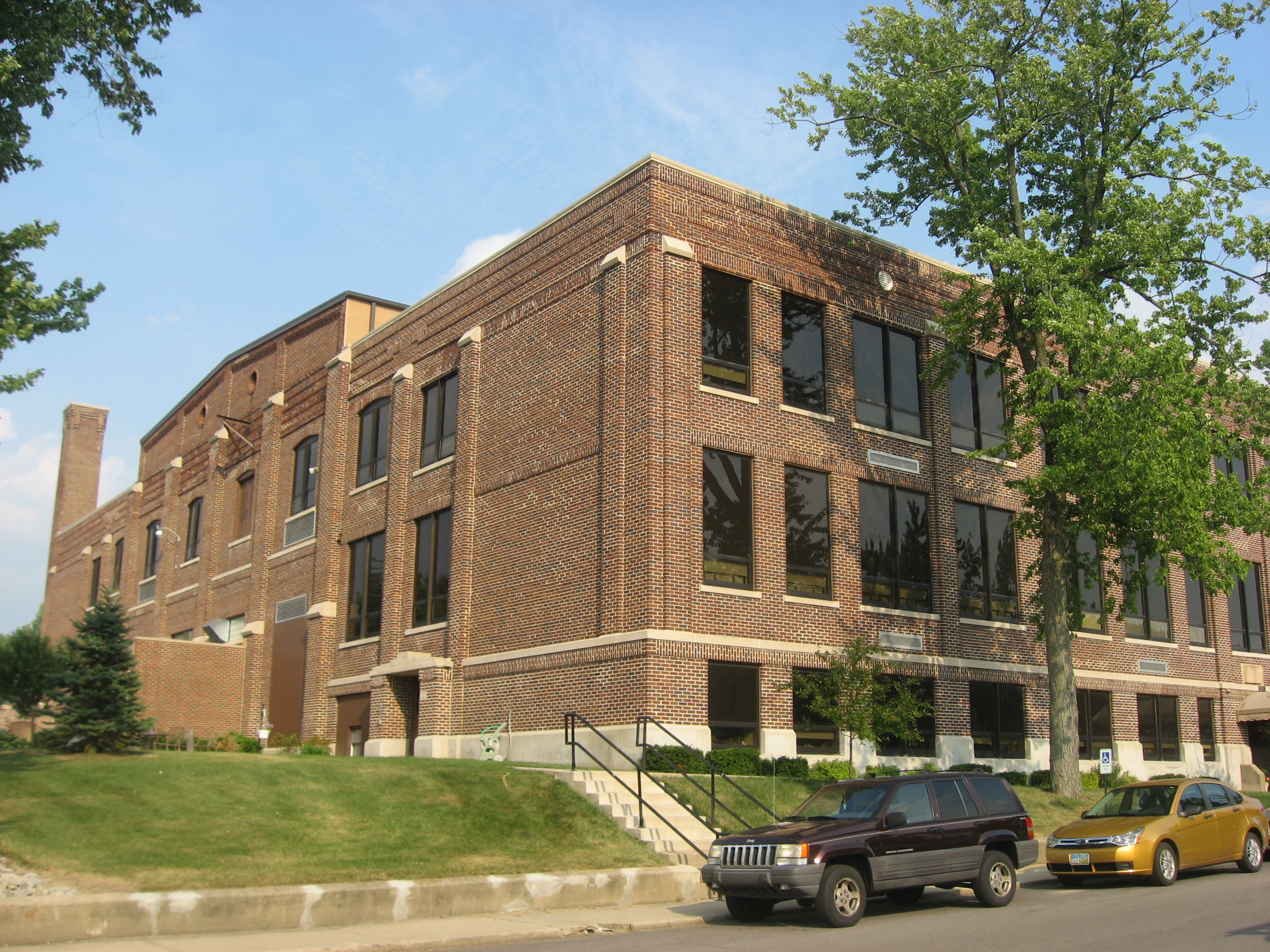 Northern and western sides of the Union City School, located at 310 N. Walnut Street in Union City, Indiana, United States. Built in 1920, it is listed on the National Register of Historic Places.